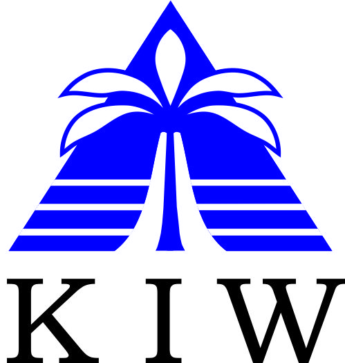 LOGO KIW ASLI